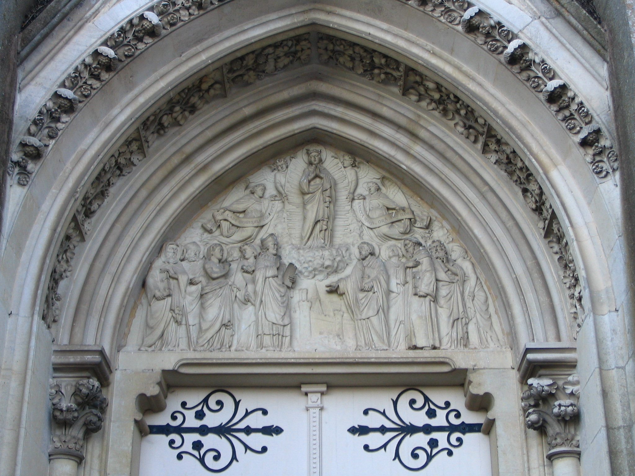 Notre-Dame's church, in Montfort-le-Gesnois, Sarthe, France.